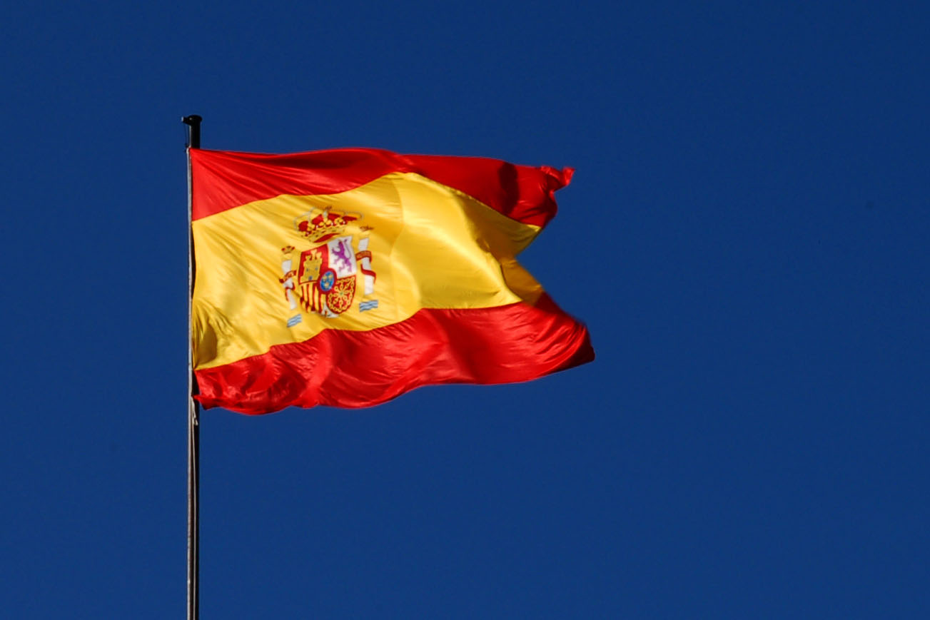 A flag of Spain at the Air Force of Spain headquarters in Madrid.